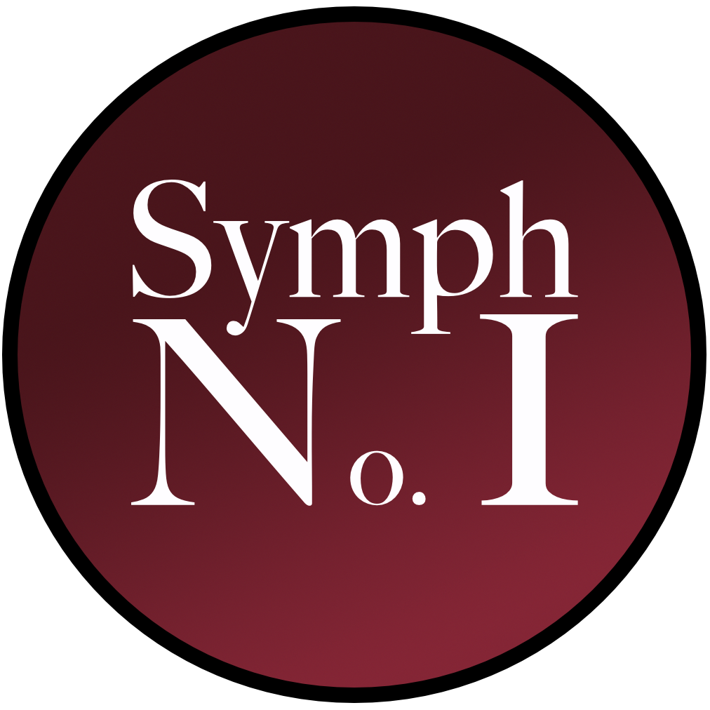 Symphony Number One Logo. Color, Transparent Background, Black Ring Version.